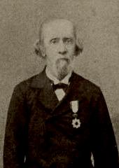 Divie Bethune McCartee, American missionary pioneer.